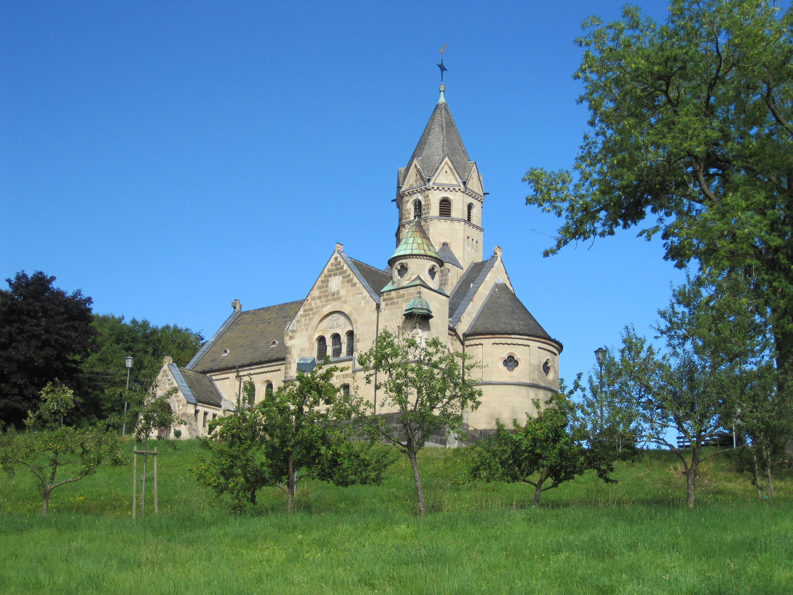 view of the southern side